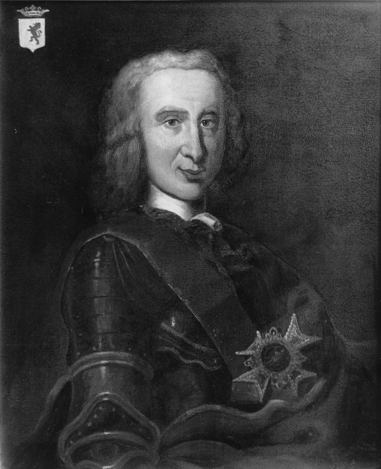 Photograph, François-Pierre de Rigaud, Chevalier de Vaudreuil, painting by William Raphael, photographed for C. M. Smith in 1916, Wm. Notman & Son, Silver salts on glass - Gelatin dry plate process - 25 x 20 cm